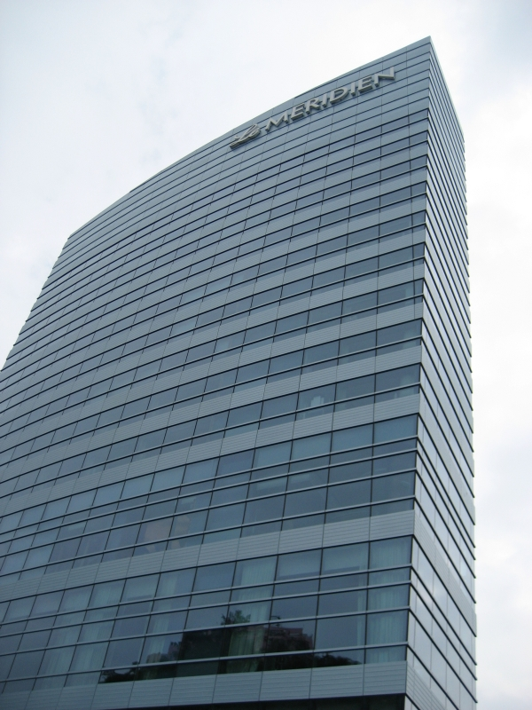 Le Meridien Cyberport